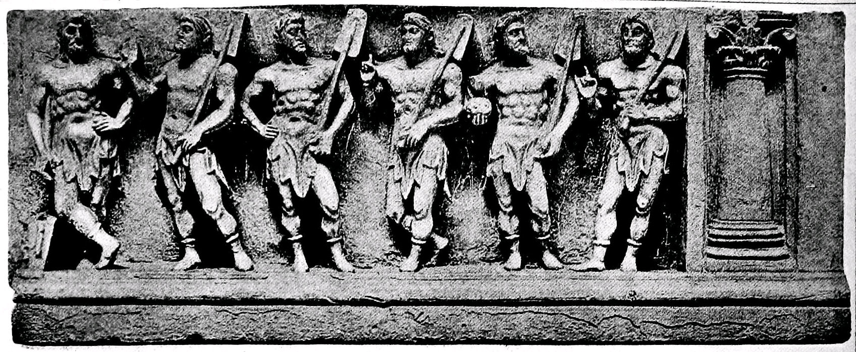 Marine deities Gandhara